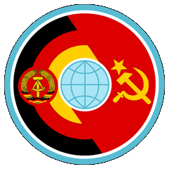 Soyuz 31 logo